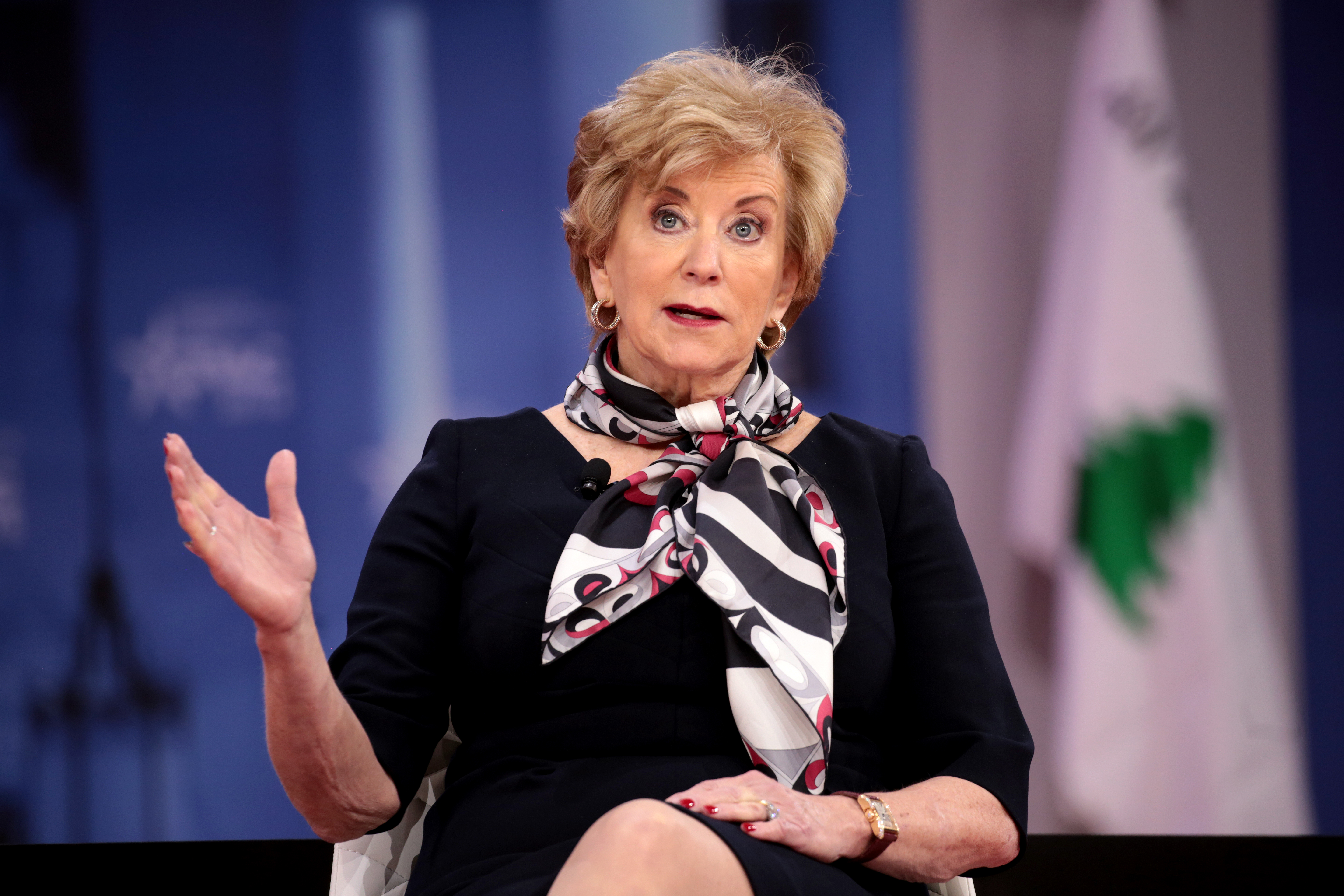 Administrator of the Small Business Administration Linda McMahon speaking at the 2018 Conservative Political Action Conference (CPAC) in National Harbor, Maryland.